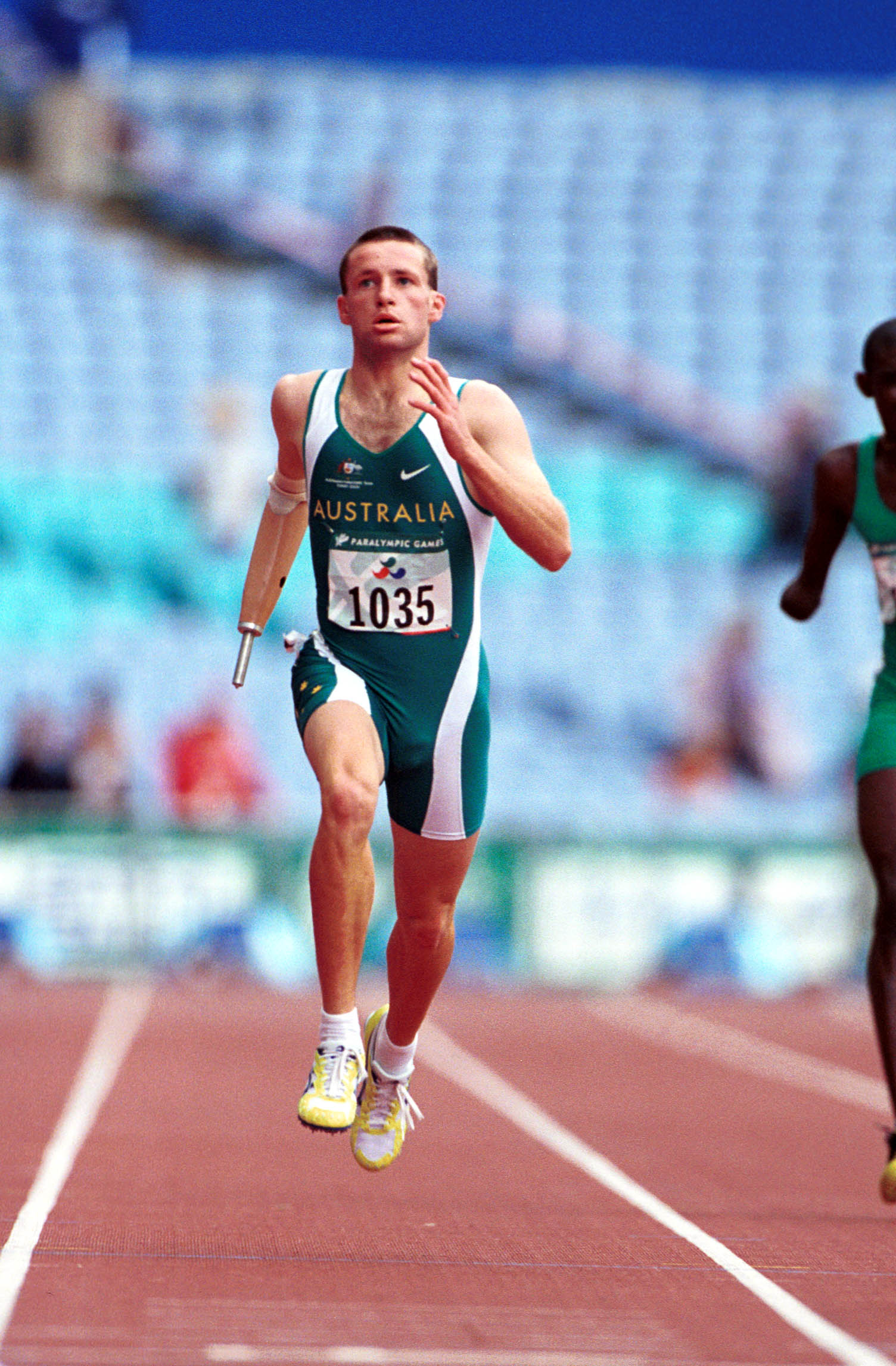 Action shot of Australian track athlete Heath Francis sprinting during the 400 m T46 event at the 2000 Sydney Paralympic Games, Day 03